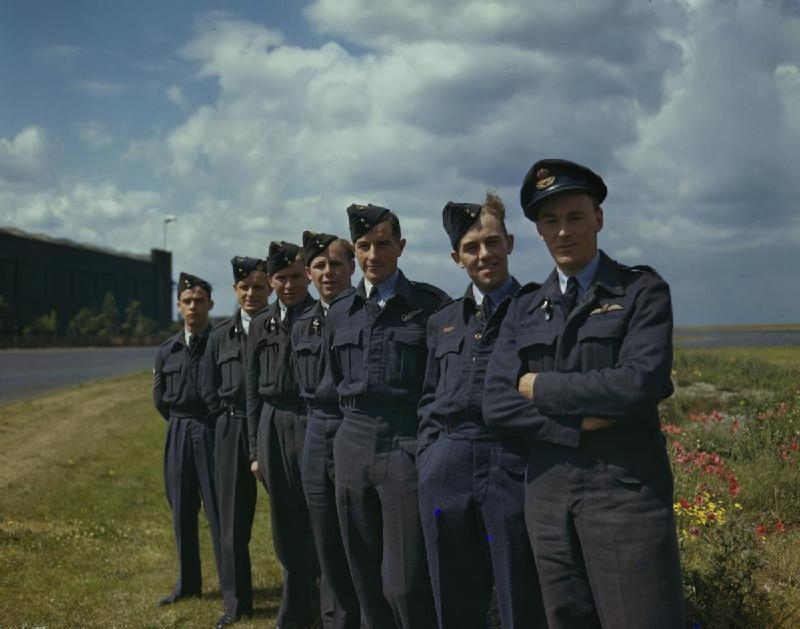 617 Squadron (dambusters) at Scampton, Lincolnshire, 22 July 1943 Flight Lieutenant H S Wilson's crew. Left to right: Flight Sergeant J H Payne, gunner Pilot Officer T W Johnson, engineer Sergeant W E Hornby Sergeant L G Mieyette, wireless operator Pilot Officer C H Coles, bomb-aimer Flying Officer J A Rodger, navigator Flight Lieutenant W H S Wilson All were killed when their Lancaster was shot down on the night of 15 - 16 September 1943 during the raid on Dortmund-Ems Canal.